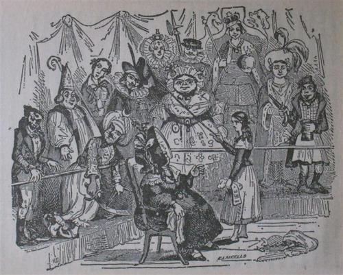 Chapter 28: Mrs. Jarley teaches Little Nell how to be a guide for her waxworks. At the far right Browne caricatures an exhibit at Mme. Tussauds in London of Edward Oxford, who had attempted to assassinate Queen Victoria earlier that year: a wide-eyed, imbecilic young man, clutching a flintlock pistol in his right hand and a tankard of beer in his left, with a sheet of paper marked “Young England” sticking out of his pocket. In the line of fire, to the back of Oxford, sits a calmly unaware Queen Victoria, holding the orb and sceptre and dressed in her 1838 coronation robes. While Oxford’s pistol may be pointing at her, "Phiz" depicts her as untouched, serenely above and beyond the lunatic's threat.